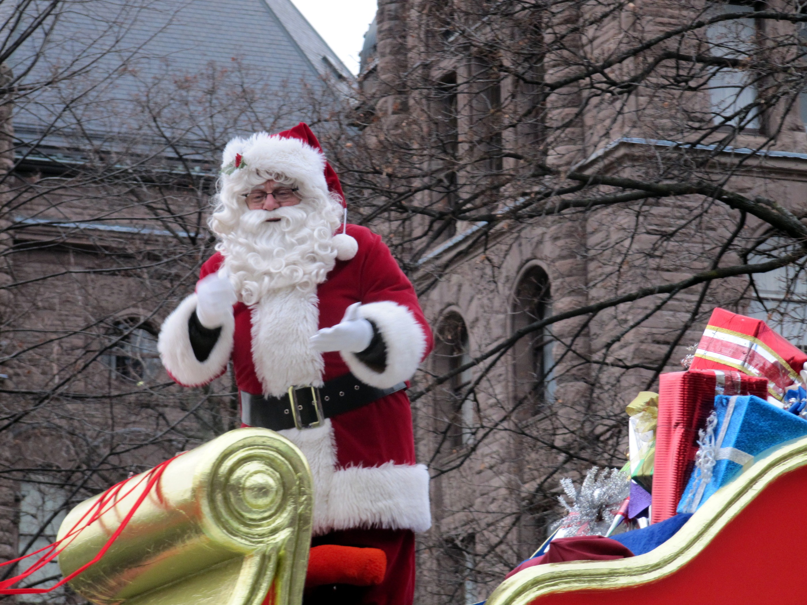 Hey! Santa! Look at me! I have to tell you what I want for Christmas! 2010 Santa Claus Parade, Toronto.